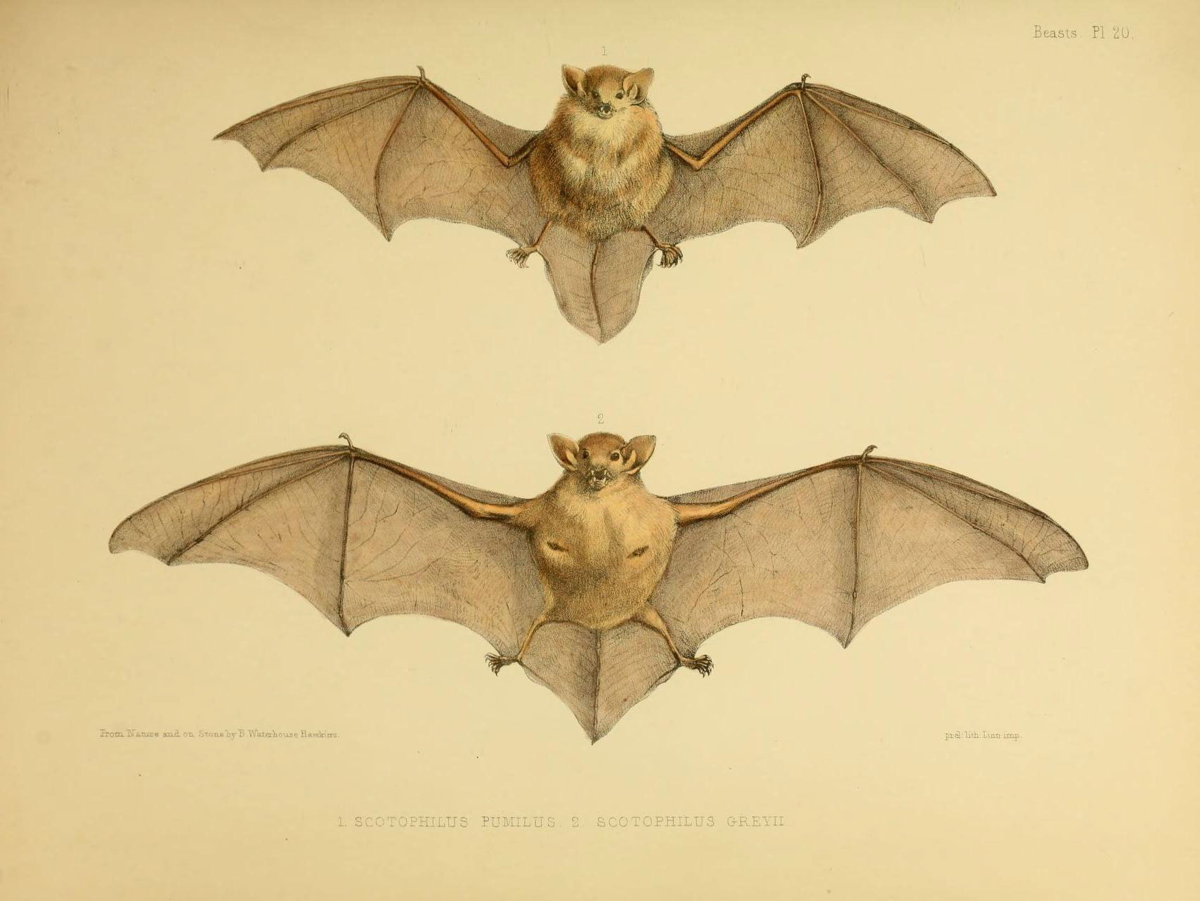 Vespadelus pumilus and Scotorepens greyii